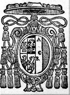 Coat of arms of Francesco Cornaro (cardinal)